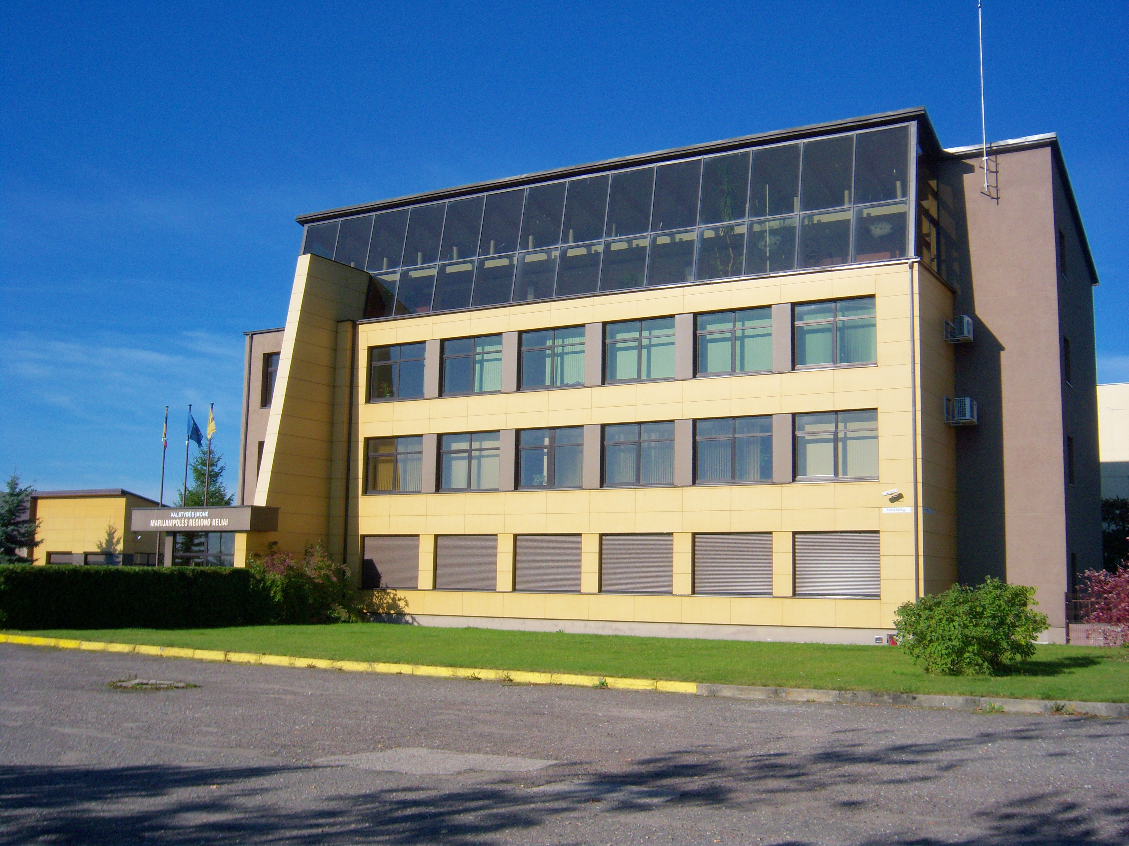 State company of regional road administration „Marijampolės regiono keliai“, Lithuania